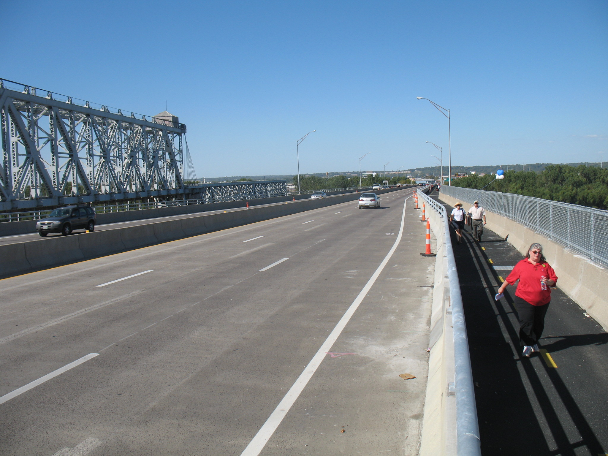 Heart of America Bridge Bike/Ped Path